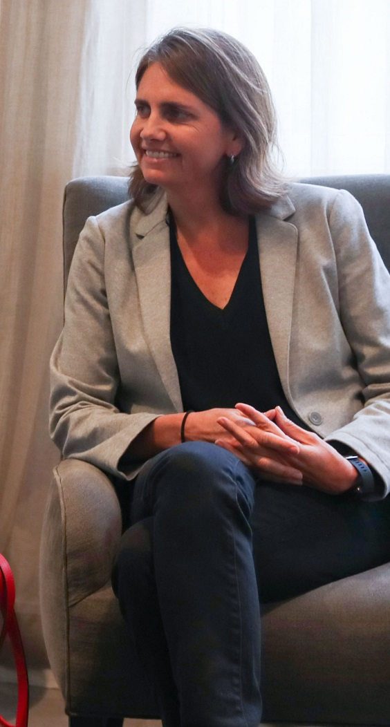 Mauricio Macri alongside the biologist Marina Simian.